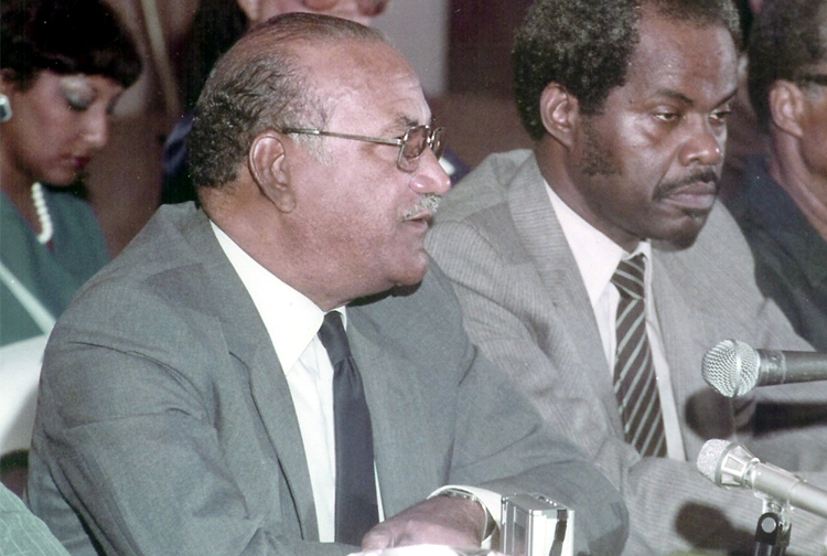 Sir George Mallet Speaking at Political Event